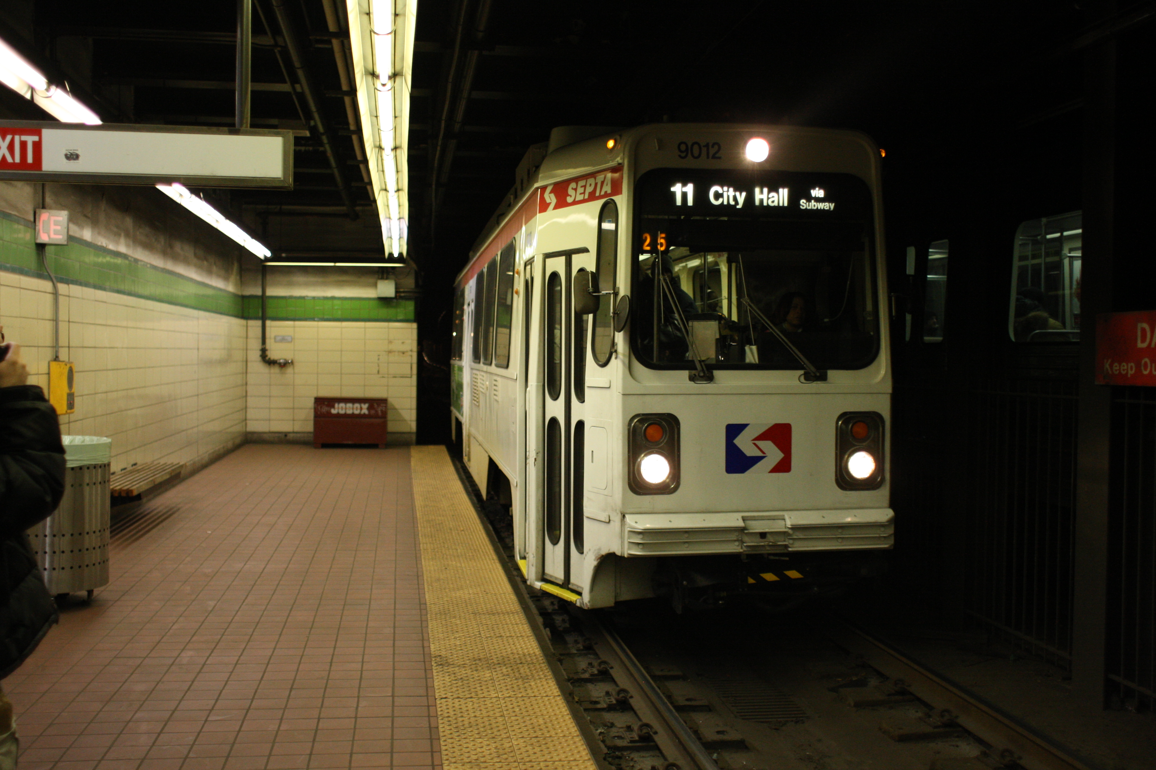 A SEPTA Subway–Surface trolley car travels along Market Street tunnel in Philadelphia, Pennsylvania.